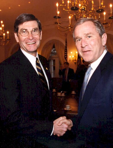 Congressman Jim Ryun shakes hands with President George W. Bush.